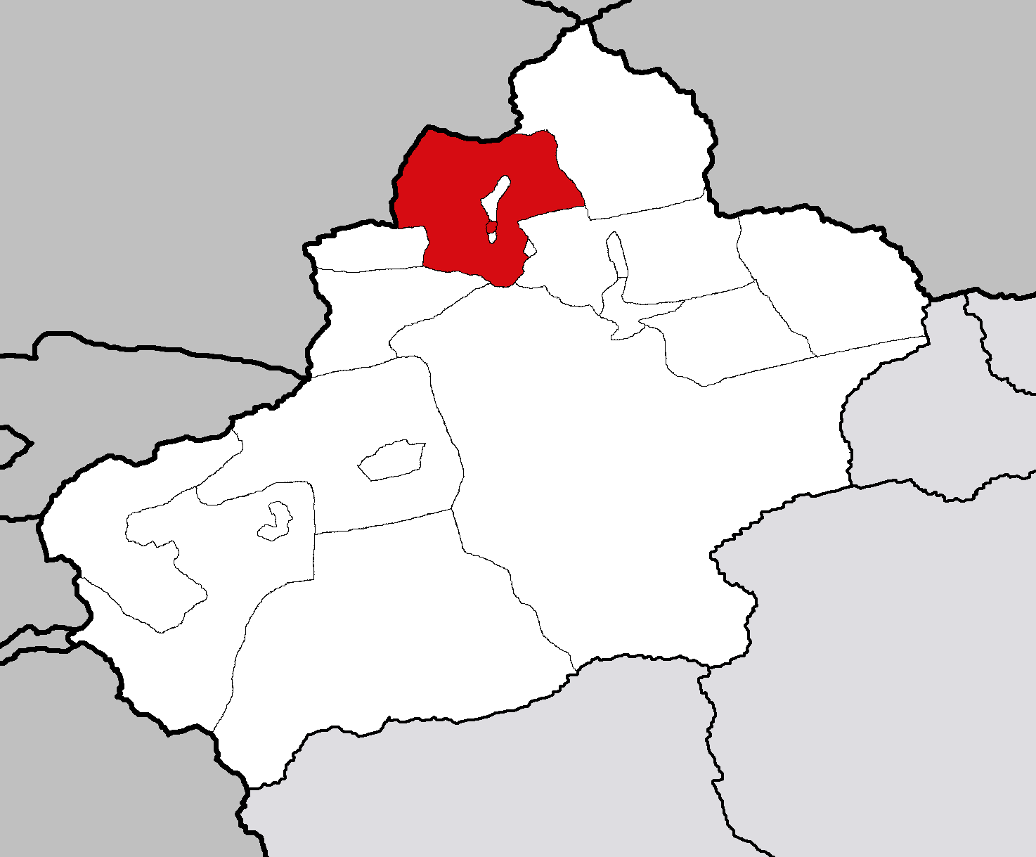 Tacheng prefecture in Xinjiang autonomous region of China. Template used : Image:Xinjiang prefectures template.png Author : Croquant 16:29, 14 February 2007 (UTC)